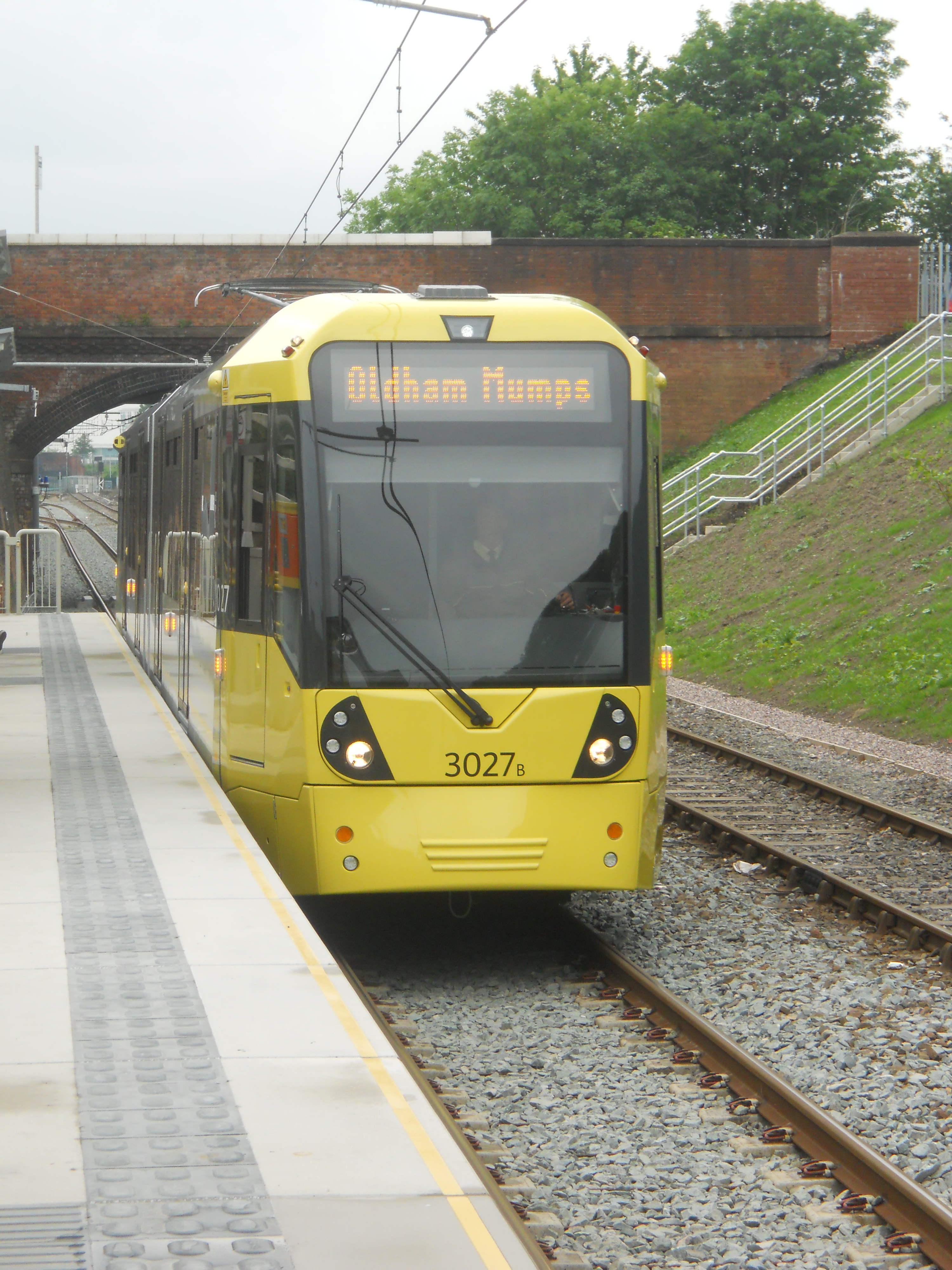 3027 - M500. Arriving at Newton Heath and Moston Metrolink Station last Wednesday (13th April) on the first day the St Werburgh's Road to Oldham Line opened. The new station was Dean Lane prior to the Metrolink conversion